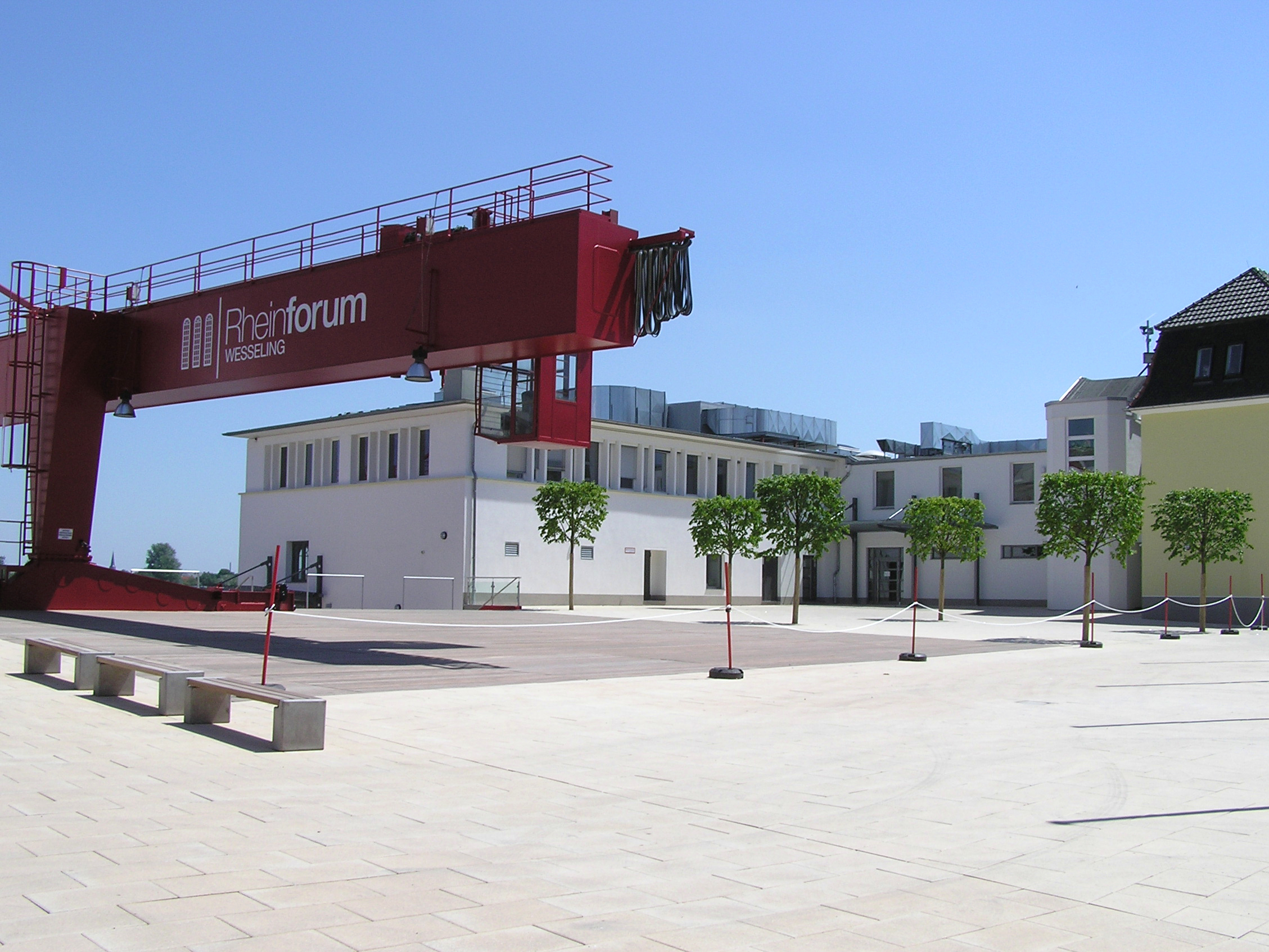 The event facilities "Rheinforum" in Wesseling, Germany.